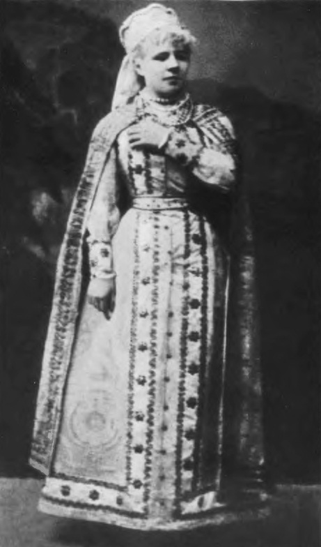 Emiliya Karlovna Pavlovskaya (1853—1935) — Natalya («The Oprichnik» by Pyotr Ilyich Tchaikovsky). The Mariinsky Theatre (Saint Petersburg, Russia), 1879.